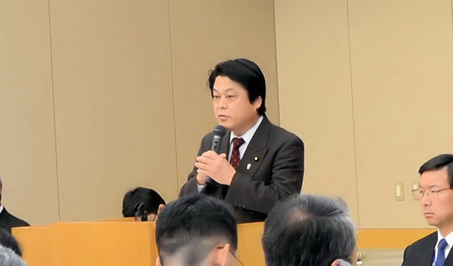 Akira Uchiyama, Parliamentary Secretary for Internal Affairs and Communications, attended a national meeting about statistics in Japan on April 20, 2011.(For terms of use, see 総務省｜当省ホームページについて.)